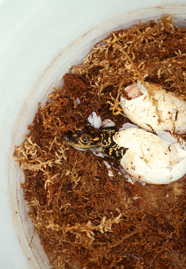 Unable to escape vicious fire ant stings, hatching alligators are especially vulnerable to attack